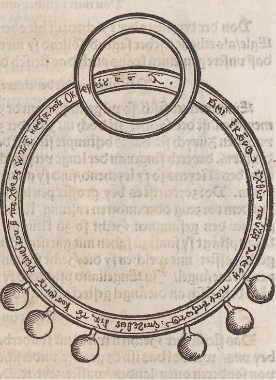 Ring with Greek inscription. Greek text: εἰμὶ ἐκεῖνος ἰχθύς, ταύτῃ λίμνῃ παντόπρωτος ἐπετεθεὶς διὰ τοΰ Κοσμητου Φεδηρίκου -ß τὰς χειρὰς ἐν τῇ ε. ἡμέρᾳ τοῦ ᾿Οκτοβρίου -α-σ-λ. Latin text: Ego sum ille piscis huic stagno omnium primus impositus per mundi Rectoris Federici secundi manus, die quinto Octobris MCCXXX. German text: Ich bin jener Fisch, in diesen See zuallererst gesetzt durch die Hände des Gebieters Friedrich am 5. Tag des Oktobers 1230.